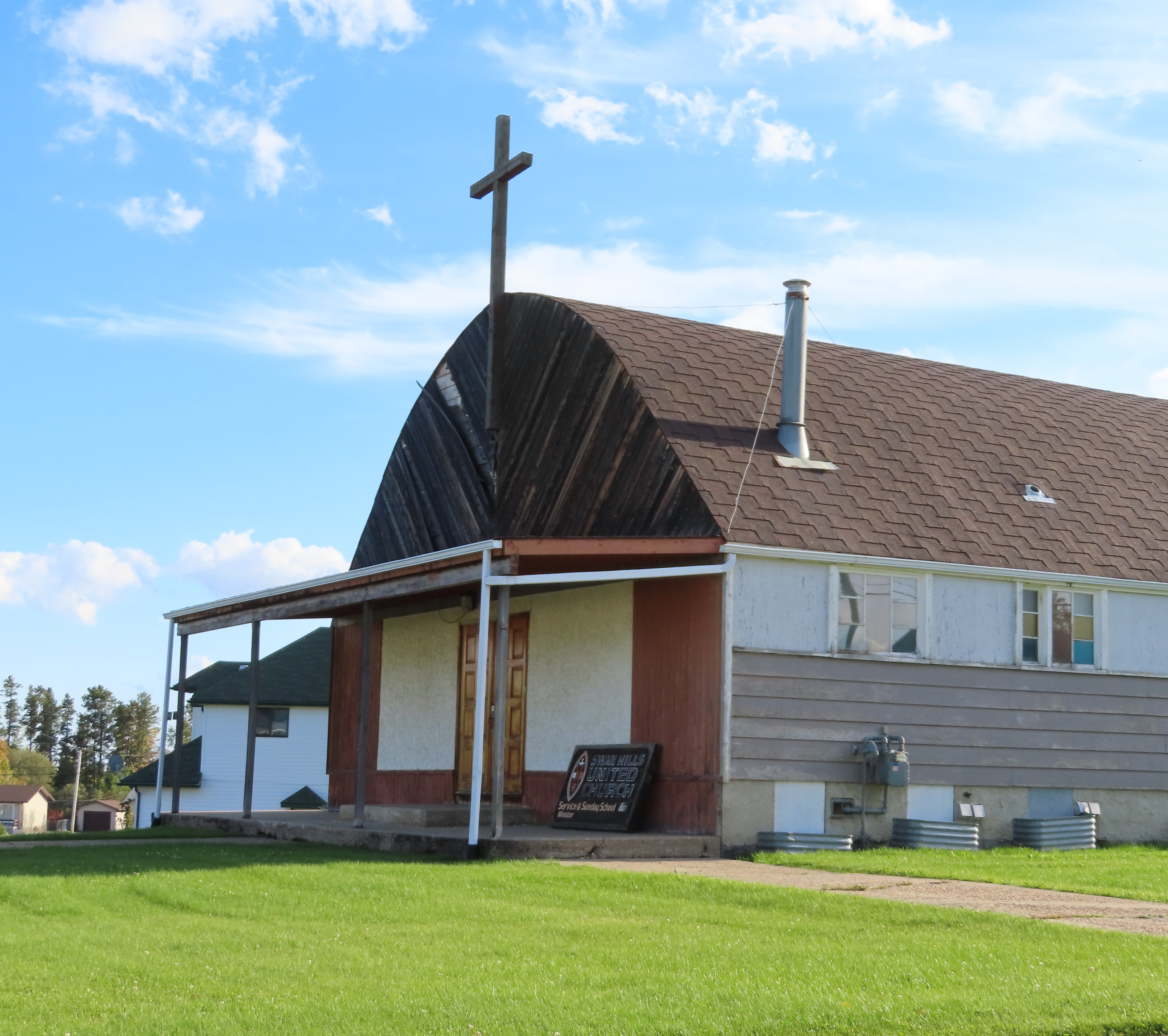 United Church in quonset building, Swan Hills, Alberta.